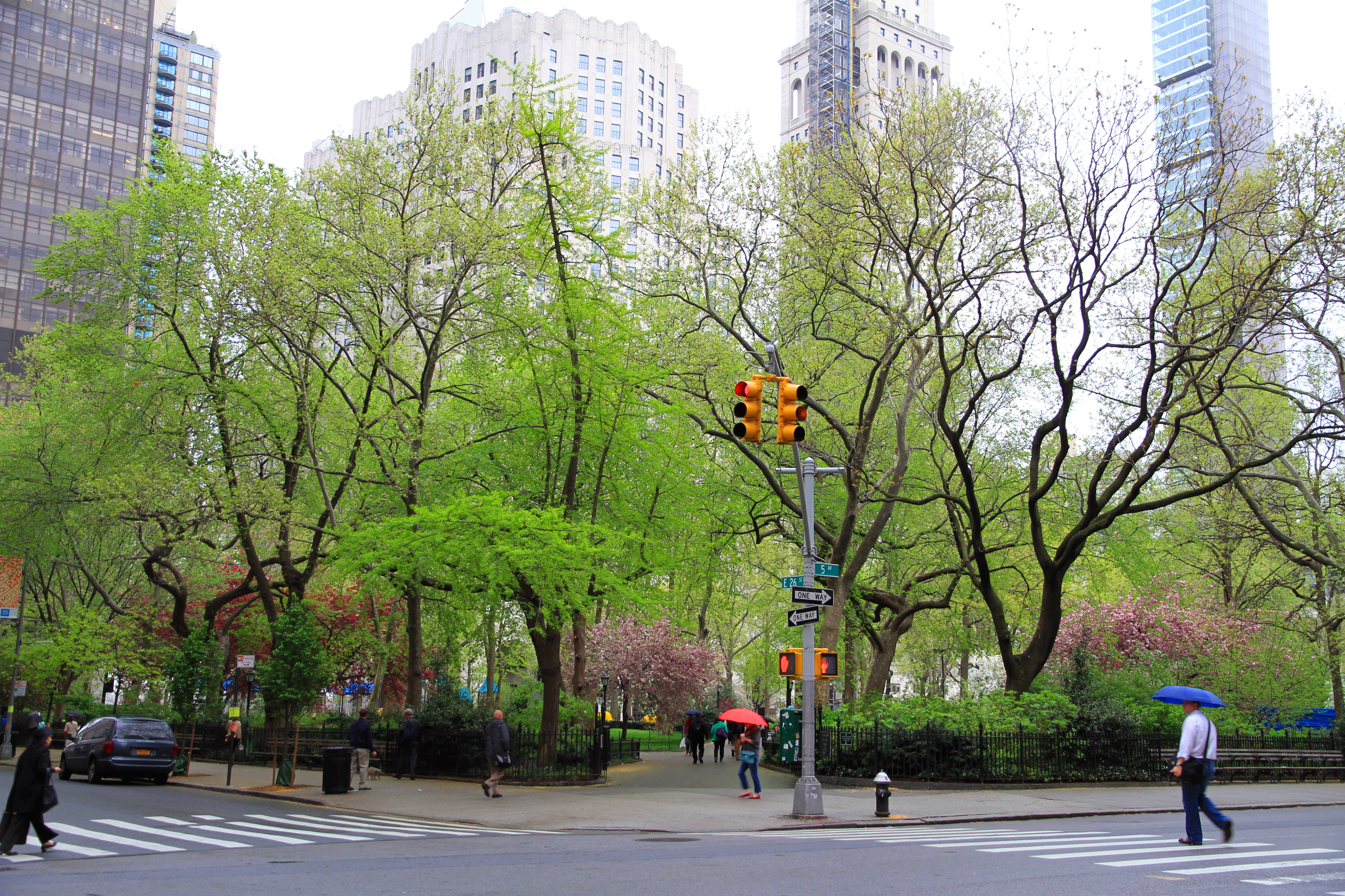 Madison Square